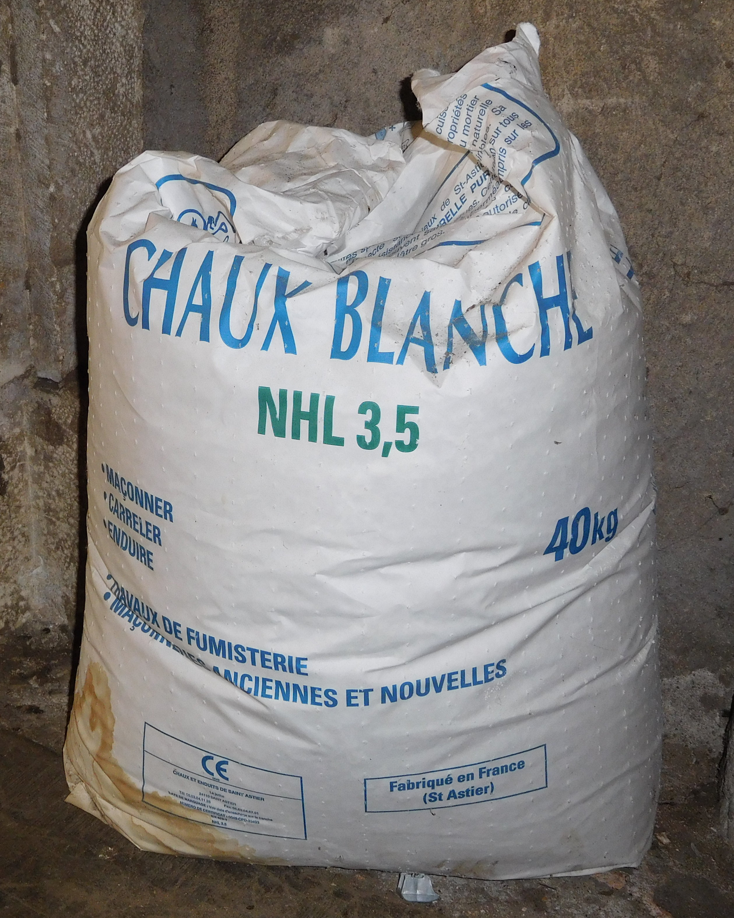 Moderately hydraulic lime (NHL 3.5) packaged in 40 kg paper-bag.